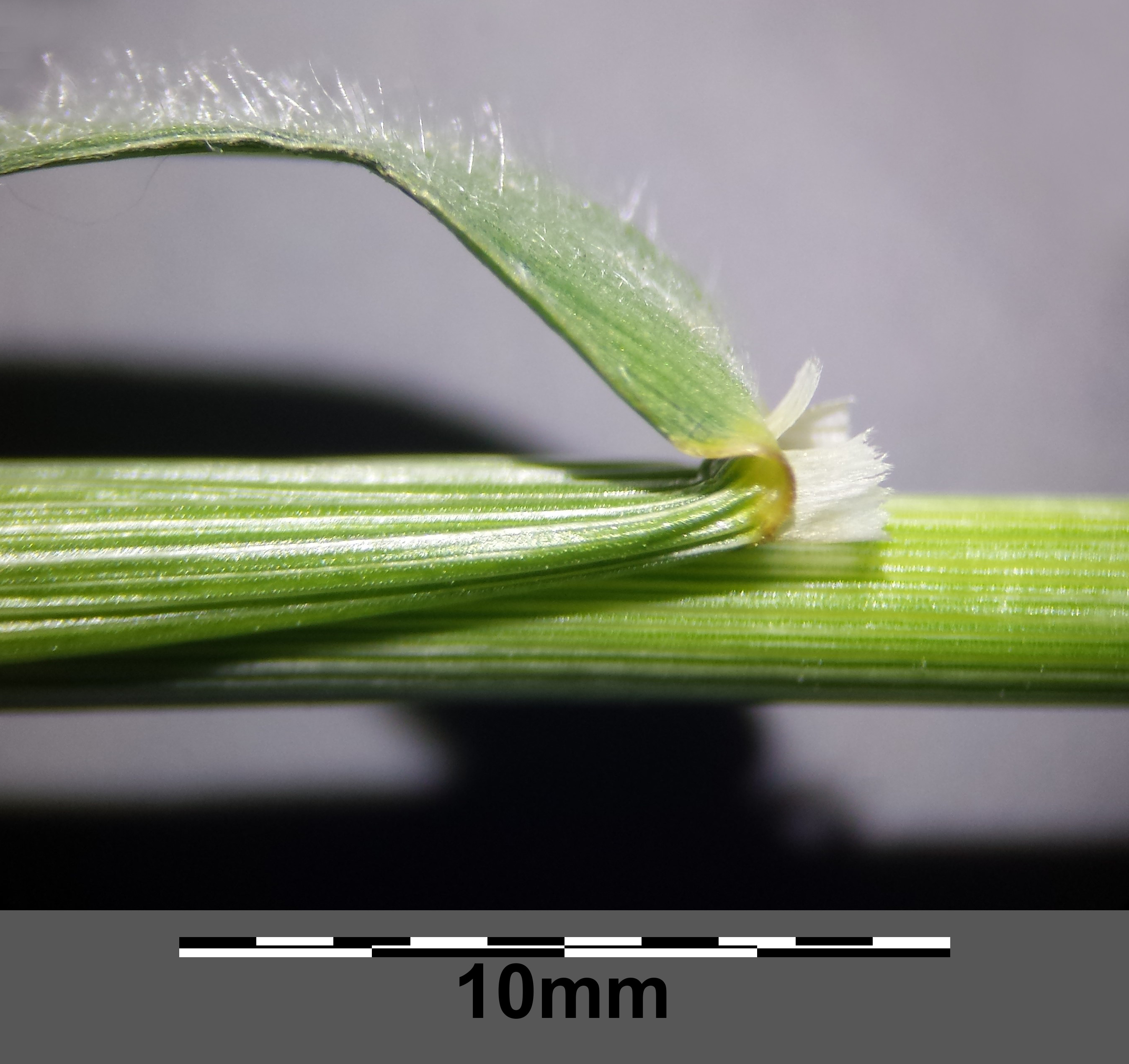 Stem with leaf sheath and ligule Taxonym: Trisetum flavescens subsp. flavescens ss Fischer et al. EfÖLS 2008 ISBN 978-3-85474-187-9 Location: "In der Hölle" near Wetzleinsdorf, district Korneuburg, Lower Austria - ca. 280 m a.s.l. Habitat: fallow land